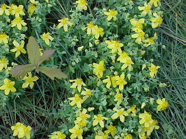 Species: Hypericum cerastoides Family: Hyperiaceae Image No. 1